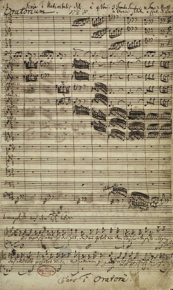 First page of the first part of the Christmas Oratorio from Johann Sebastian Bach, BWV 248